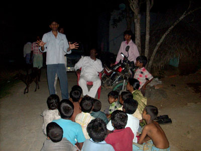 Night School conducted by apamission for Poor and rural depriived children.